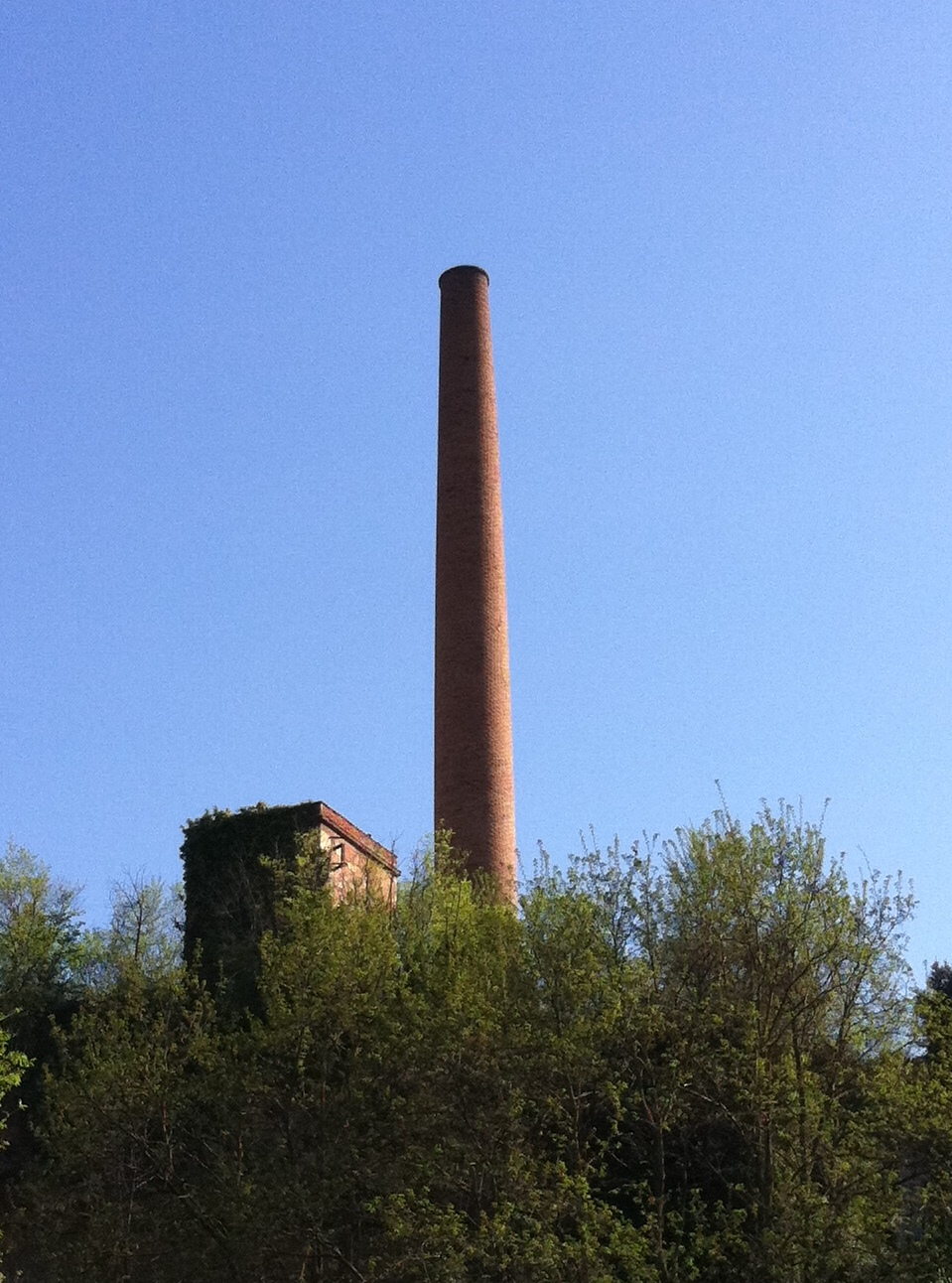 Chimney of La Lanera Española in Sabadell, Catalonia